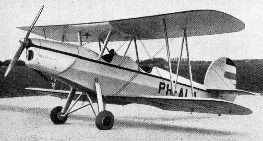 Koolhoven F.K.46 photo from Le Pontentiel Aérien Mondial 1936